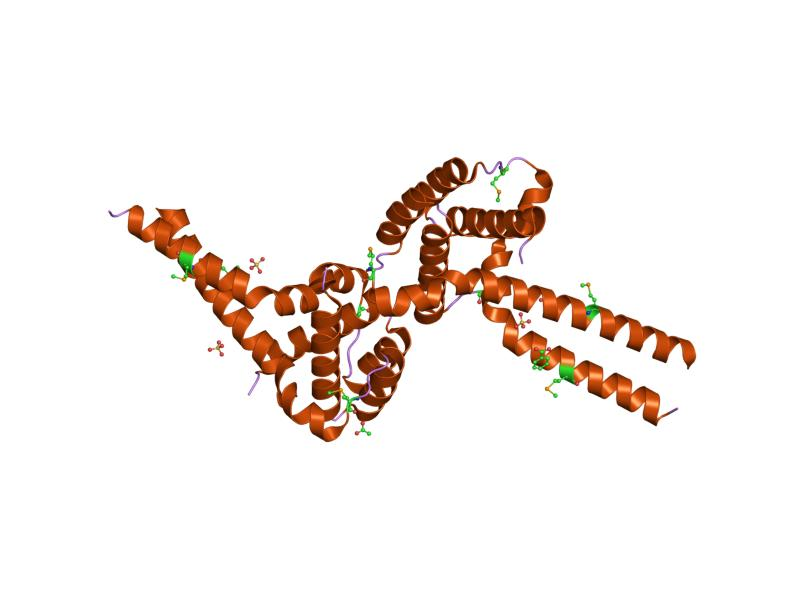 Cartoon representation of the molecular structure of protein registered with 1uuj code.